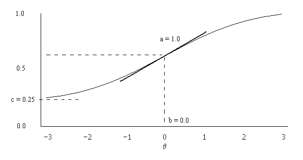 Graphical demonstration of IRT parameters.